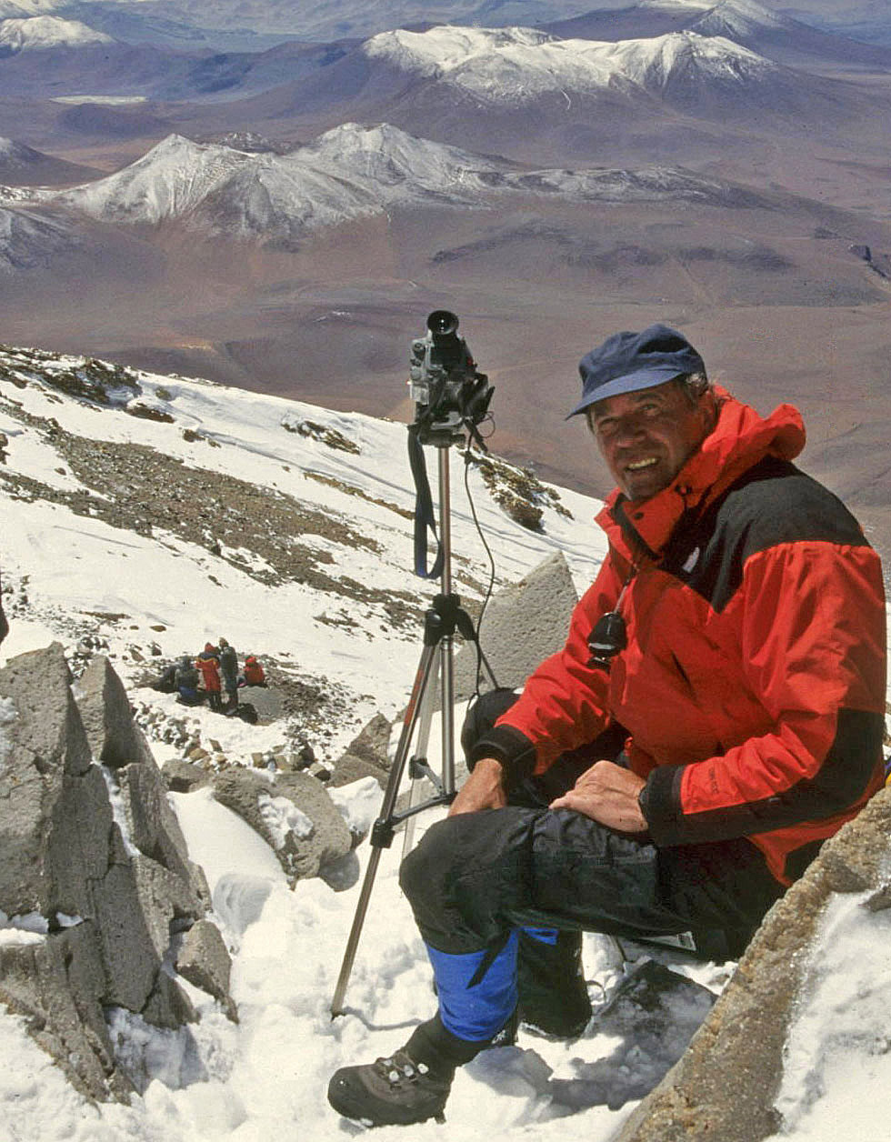 Johan Reinhard filming on summit of Llullaillaco volcano during the rescue of the inca mummies in 1999